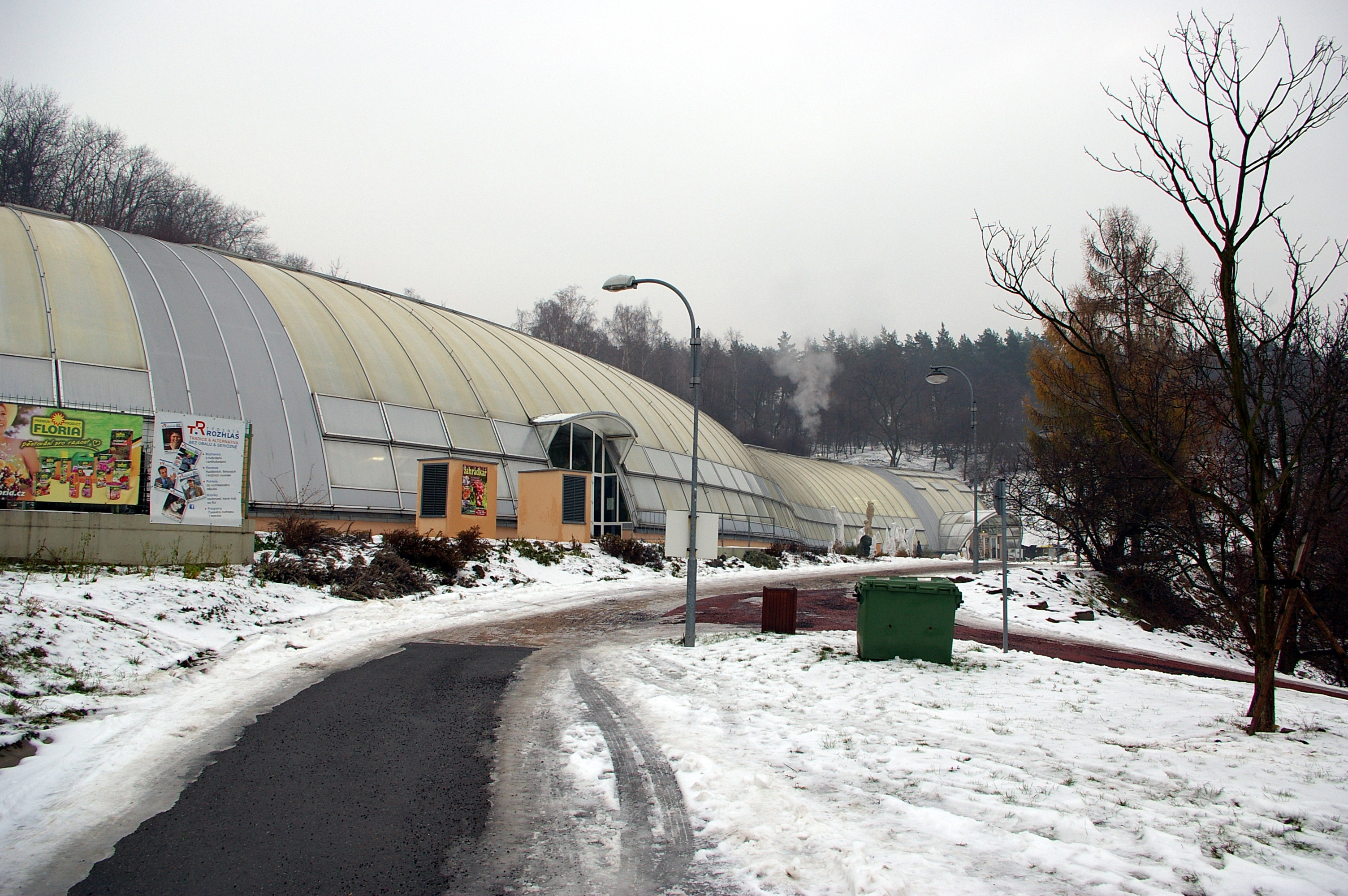 This photograph was taken on 15th December during an event in Fata Morgana Greenhouse, supported by Czech 'Mediagrant'.